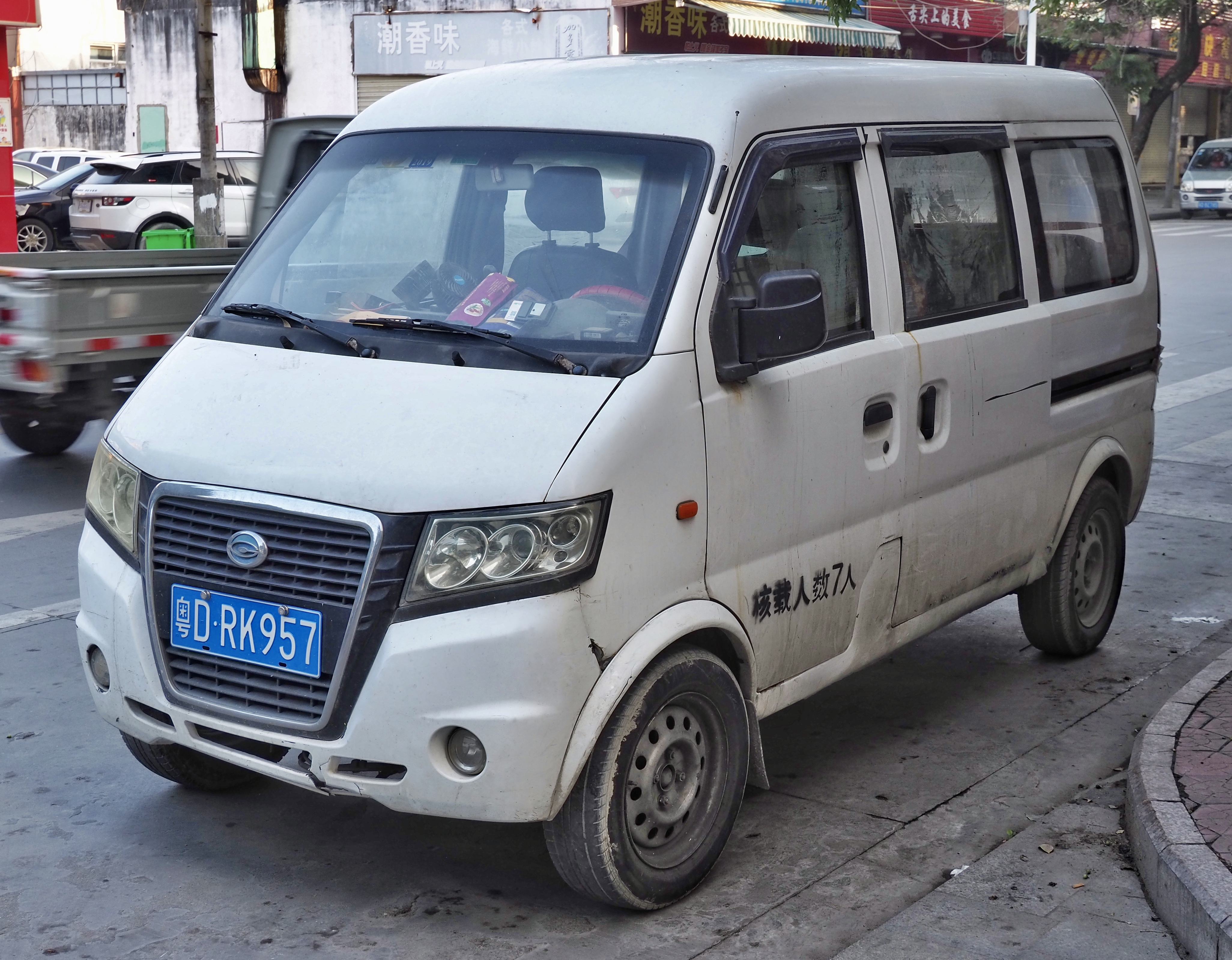 A 2012 GAC Gonwo Way photographed in Shantou, Guangdong Province, China. 中文（中国大陆）: 一辆2012年的广汽吉奥星旺，拍摄于中国广东省汕头市。